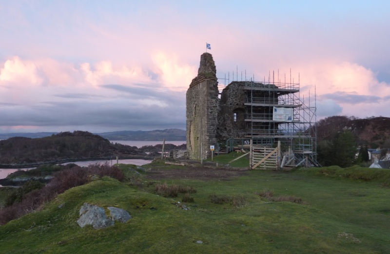 Tarbert Castle, Tarbert, Argyll and Bute, Scotland.